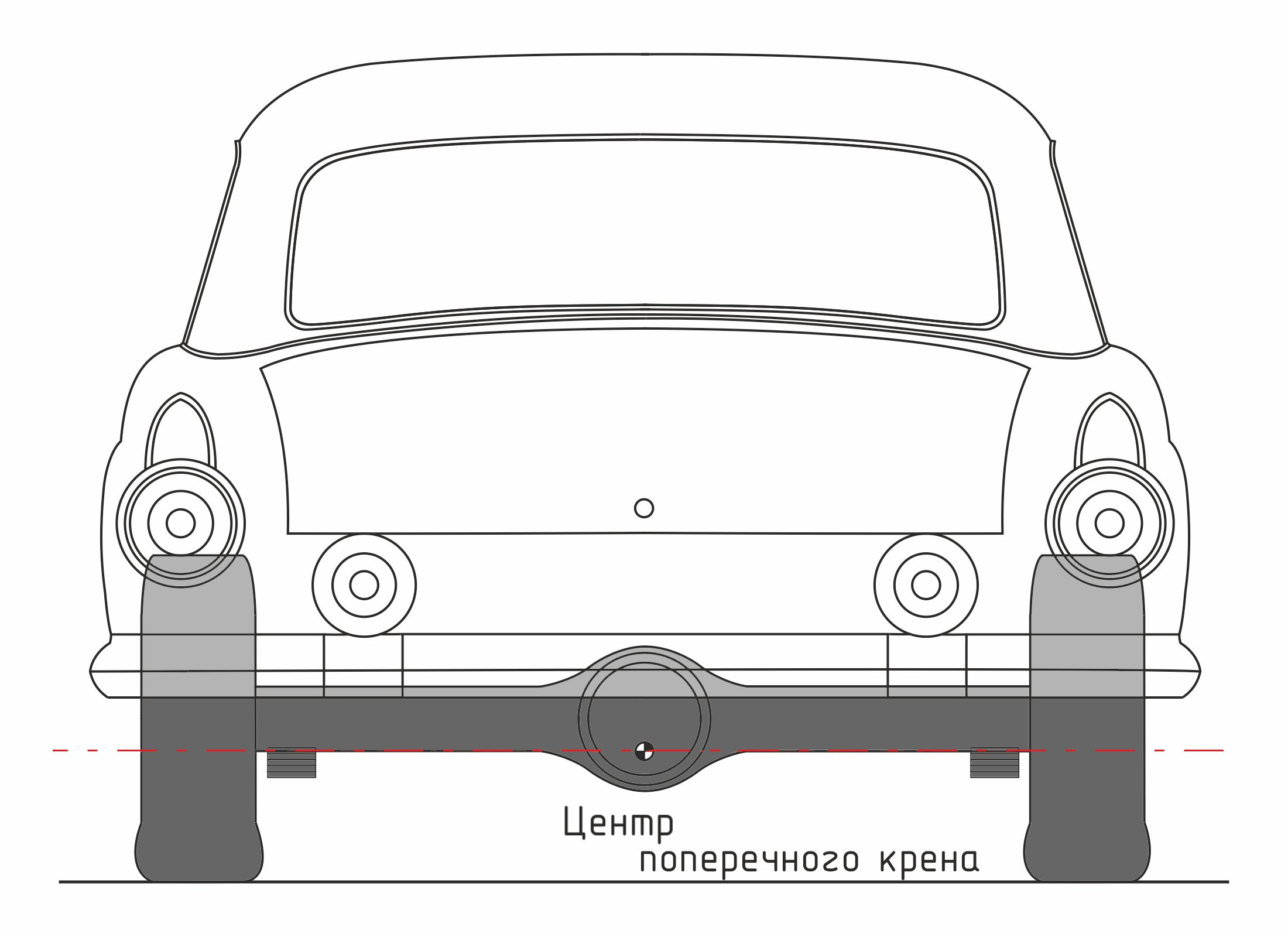 Finding the roll center of a longitudinal leaf springs suspension.